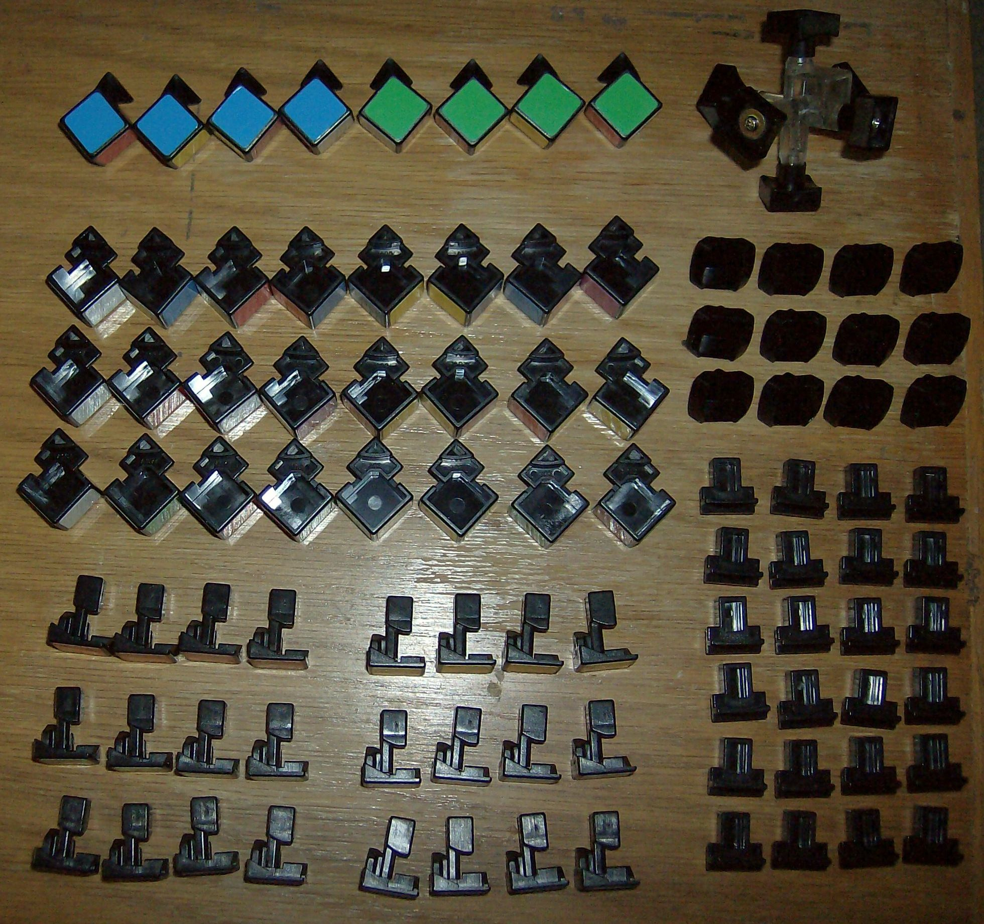 The parts of an Eastsheen 4×4×4. The components on the right are completely hidden within the cube when it is assembled.